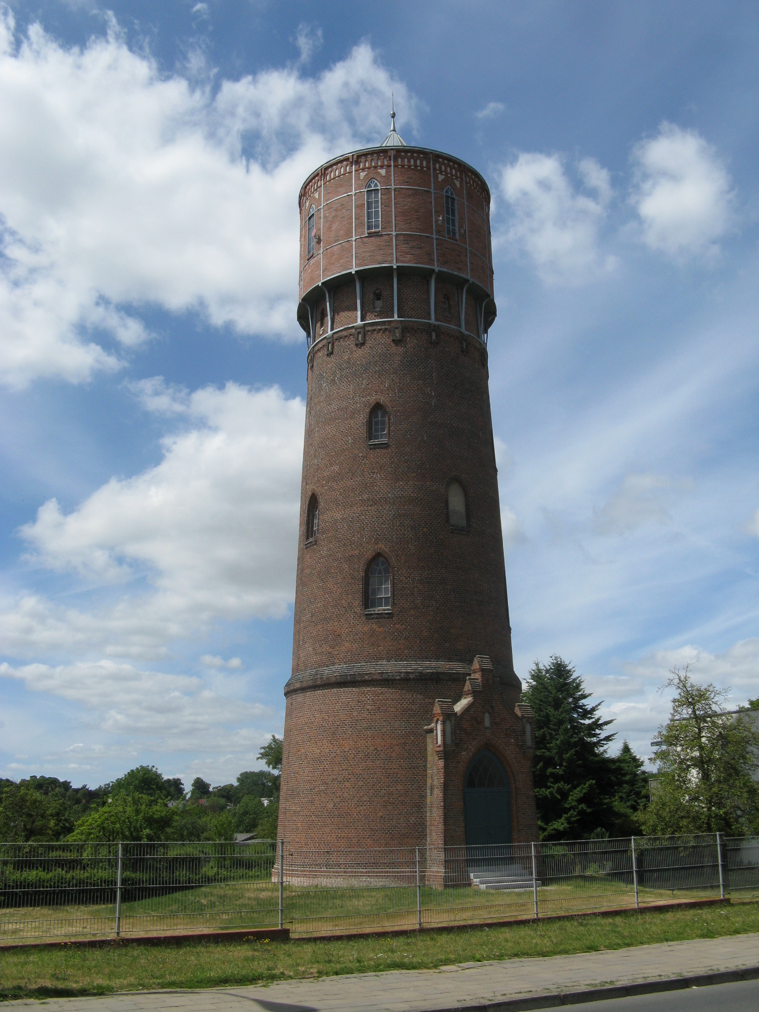 Water tower in Parchim, Mecklenburg-Vorpommern, Germany